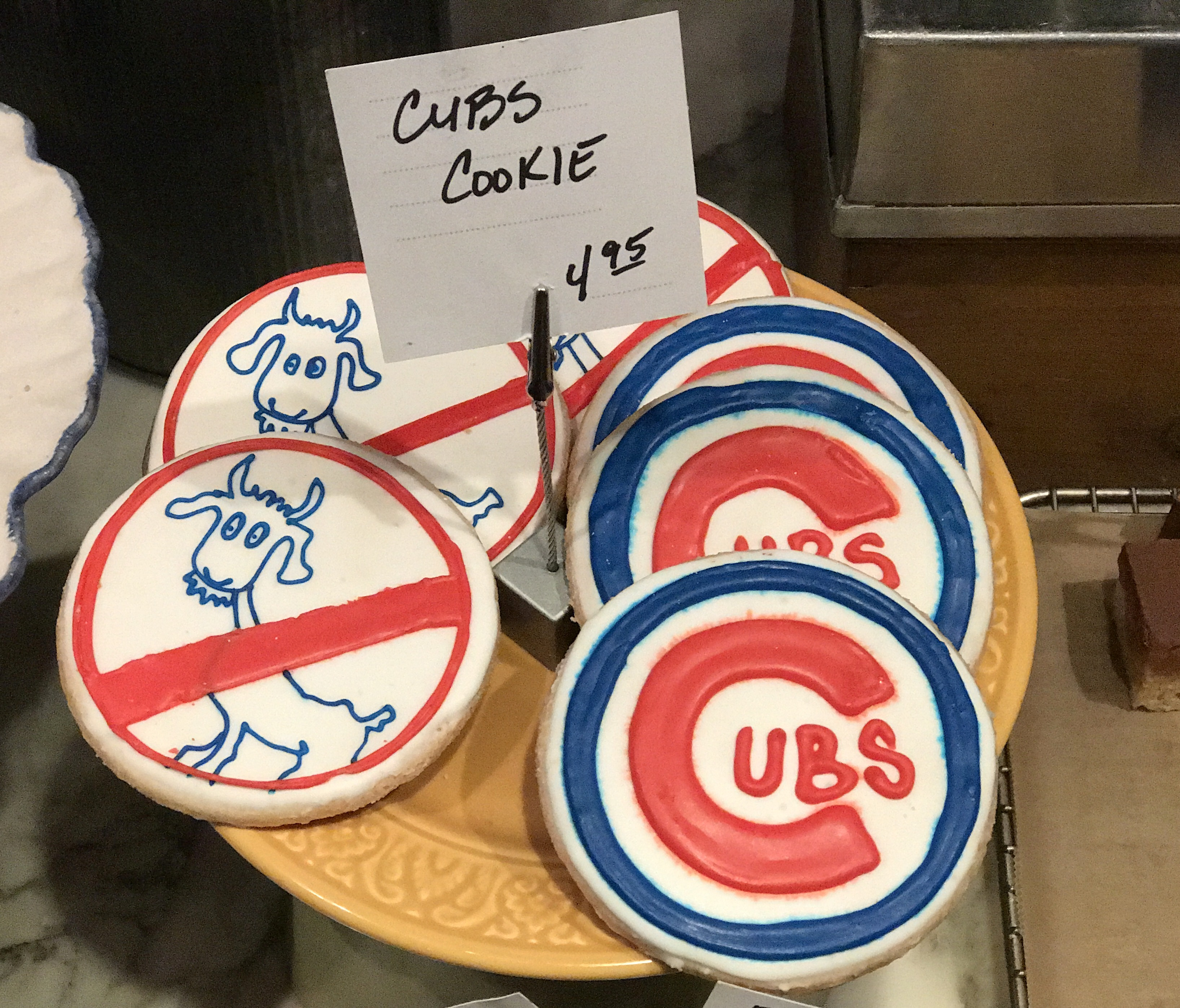 Cubs cookies for sale in Chicago.